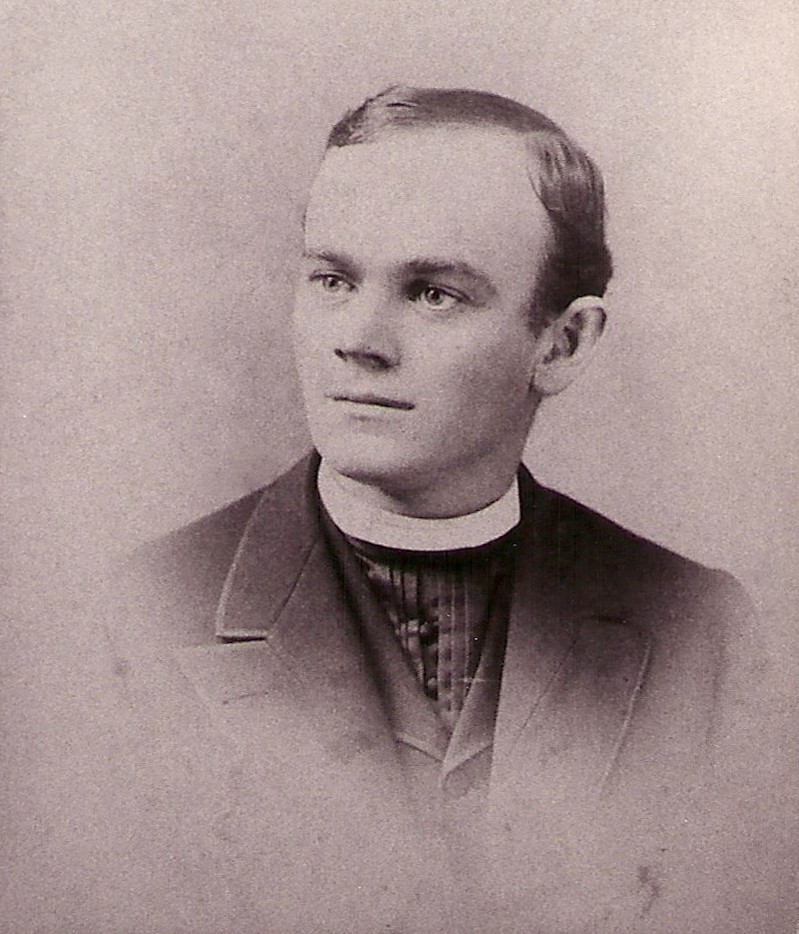 Father Thomas Ambrose Butler as a young priest.